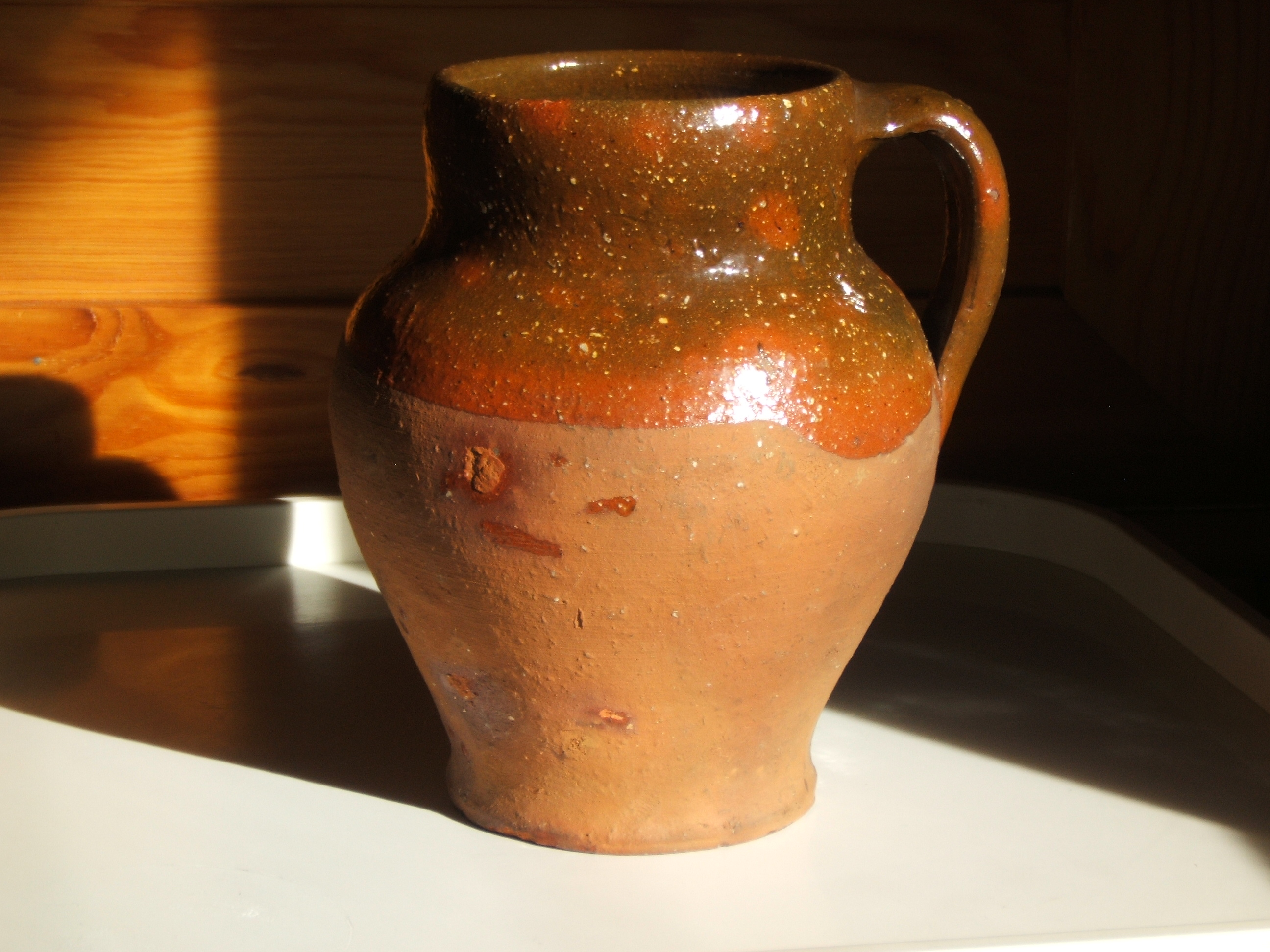 With mouth and shoulders glazed clay pot. Traditional pottery in the Northwest of the Iberian Peninsula; origin Puebla de Sanabria, Zamora, Spain